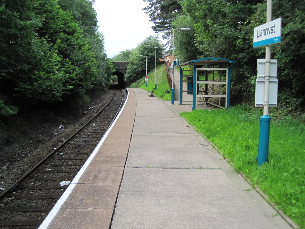 Taken by Nigel Thompson.